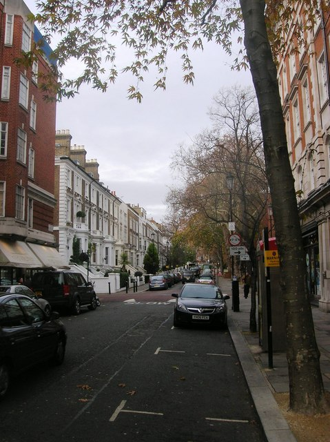 Campden Hill Road, London W8 Taken from the junction with Kensington High Street, London W8